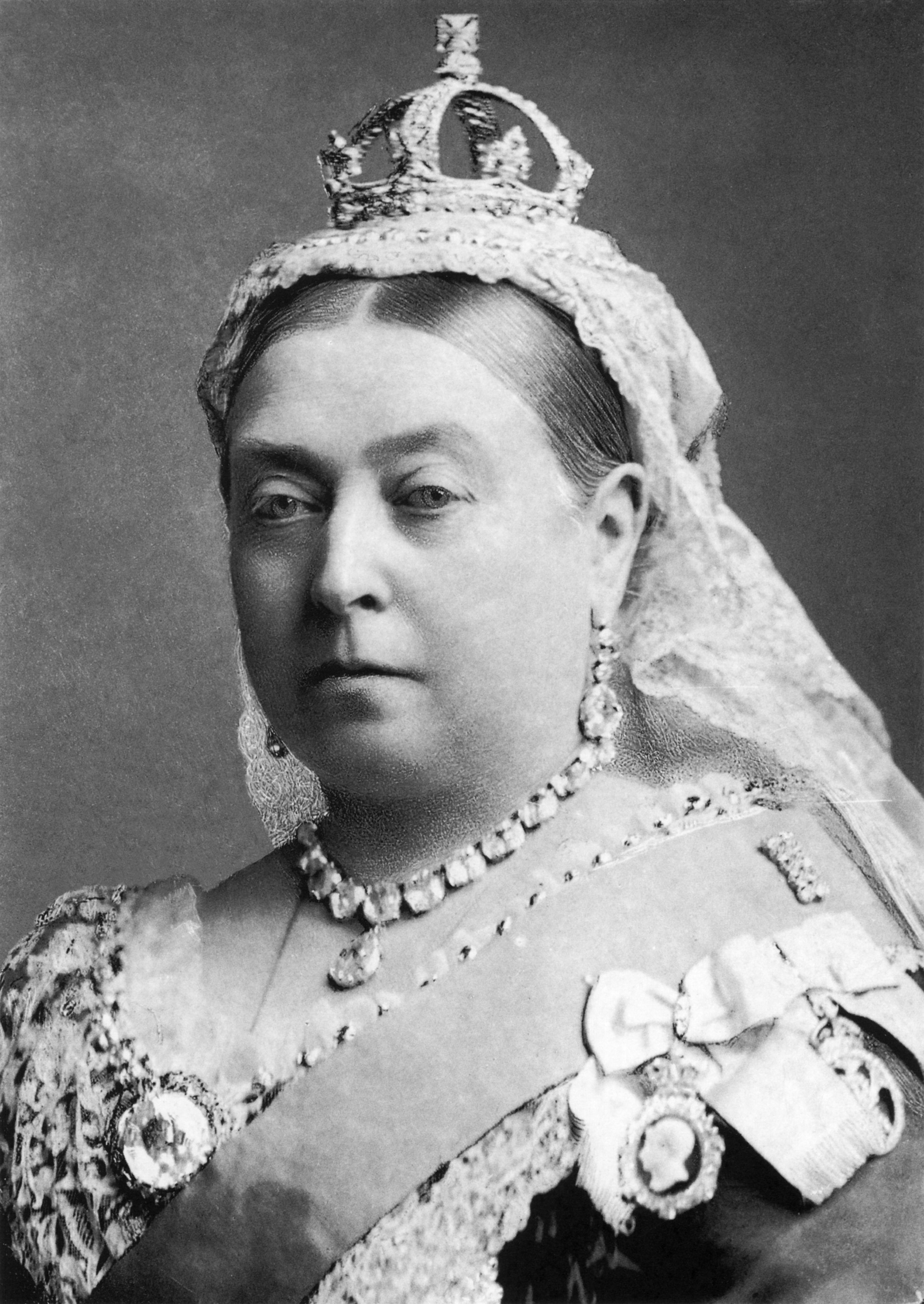 This picture was taken in 1882, by Alexander Bassano, IN THE UNITED KINGDOM